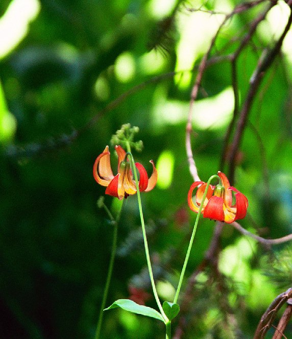 The Sasta Tiger Lily (Lilium pardalinum subsp. shastense